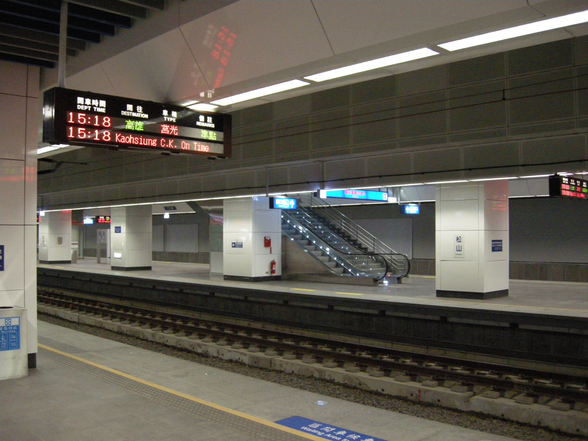 Platform 2, Taiwan Railway Administration SongShan Station